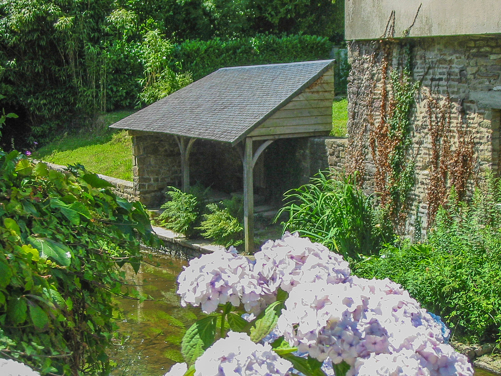 Wash house in Villedieu-lès-poêles (France)